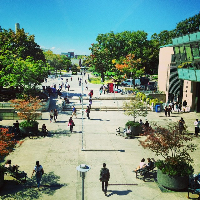 McMaster University Student Centre Plaza